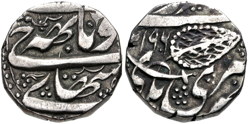 INDIA, Princely States. Kashmir. temp. Gulab Singh. VS 1903-1913 / AD 1846-1856. AR Kham Rupee (21mm, 10.81 g, 12h). Srinagar mint. Dated VS 1906 (AD 1849). KM (Y) 5. VF, toned.